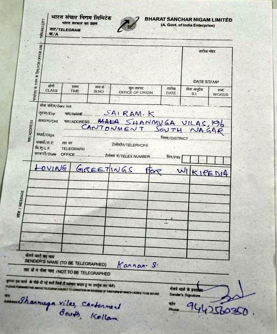 Form used for writing telegram messages